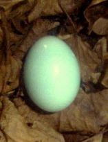 Crypturellus noctivagus egg